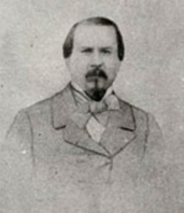 António Pedro Lopes de Mendonça (1826-1865) a Portuguese writer an journalist.